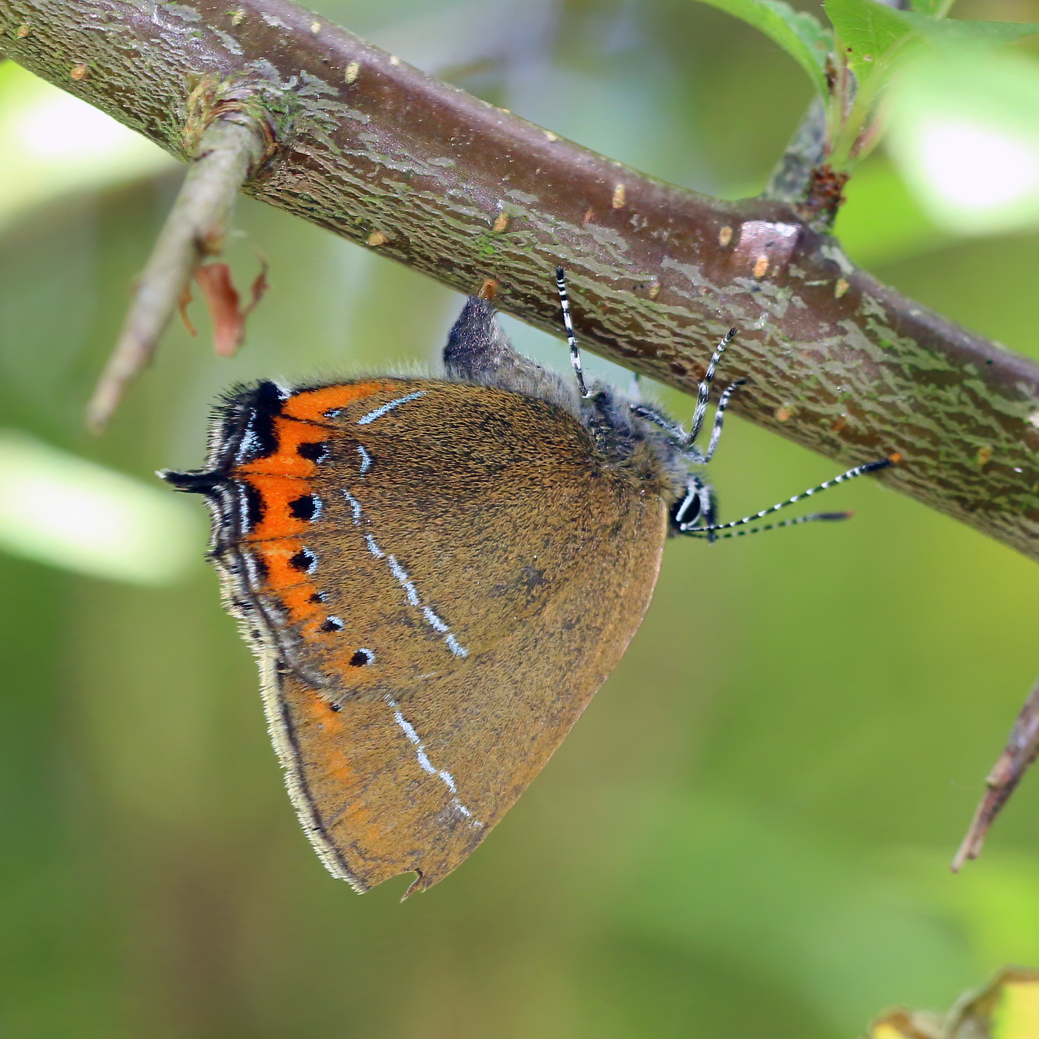 Black hairstreak (Satyrium pruni) female laying egg, Whitecross Green Wood, Buckinghamshire